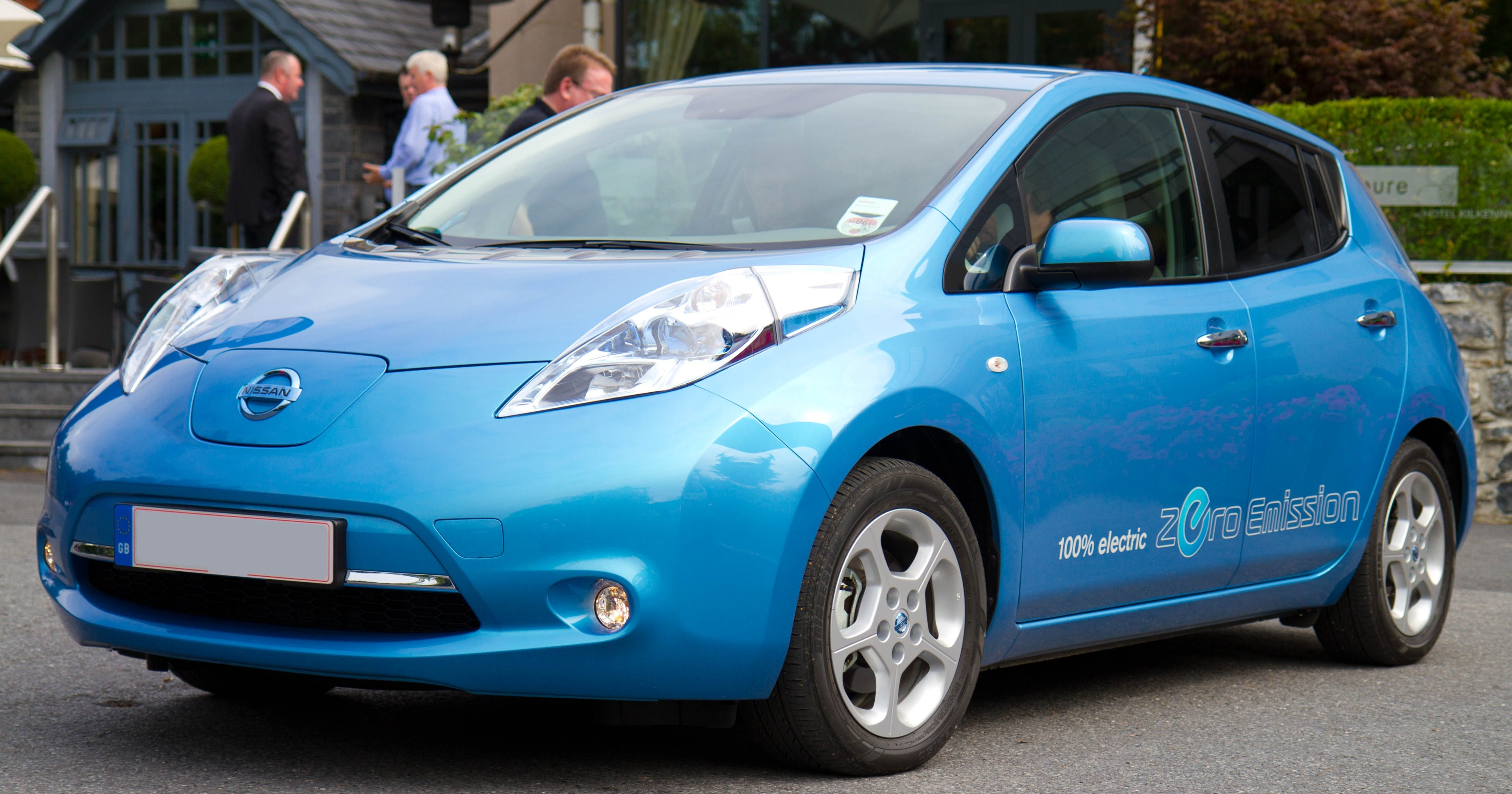 Nissan Leaf (production model). Good Design Award 2010.